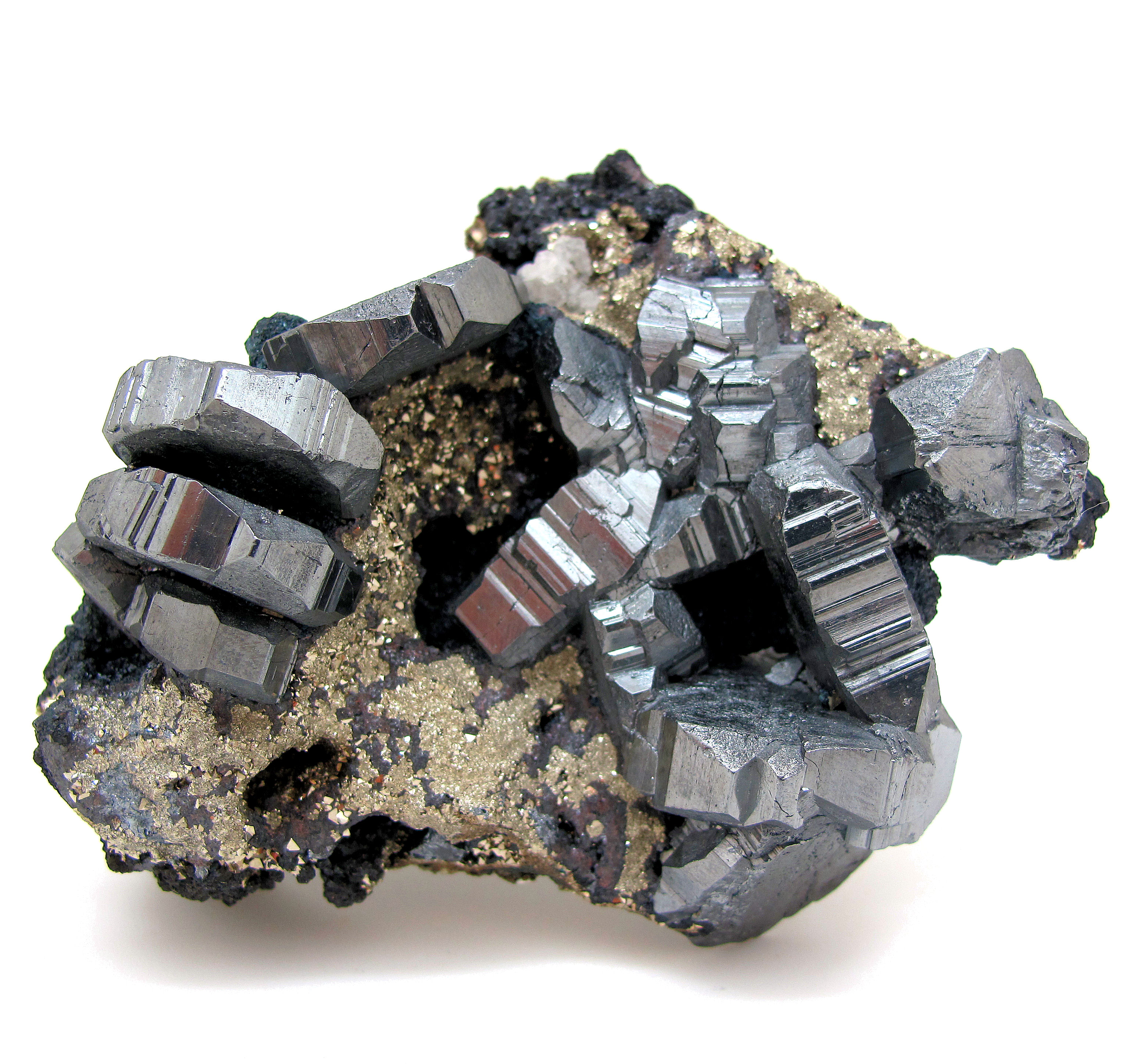 Bournonite From Viboras Mine, Machacamarca, Machacamarca District, Cornelio Saavedra Province, Potosí Department, Bolivia Dimensions: 95 mm x 74 mm x 46 mm Largest Crystal Size: 29 mm Weight: 335 g Specimen with about a dozen sharp and lustrous, well defined, gunmetal color bournonite crystals, showing the classic stepped habit of the species, accompanied by a number of pyrite microcrystals scattered on the matrix. Overall size: 95 mm x 74 mm x 46 mm. Widest crystal: 29 mm; thickest crystal: 12 mm. Weight: 335 g. Undamaged. From a new pocket found in September 2012.